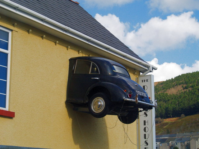 Dolls House, Abertillery